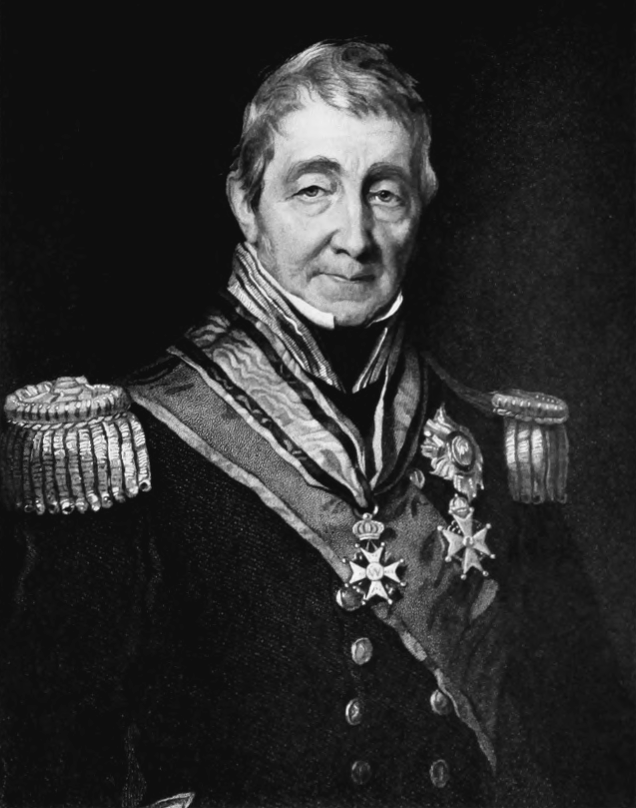 Admiral Sir David Milne (reproduced from an engraved family portrait)